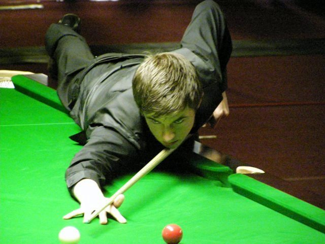 Jack Lisowski, English snooker professional